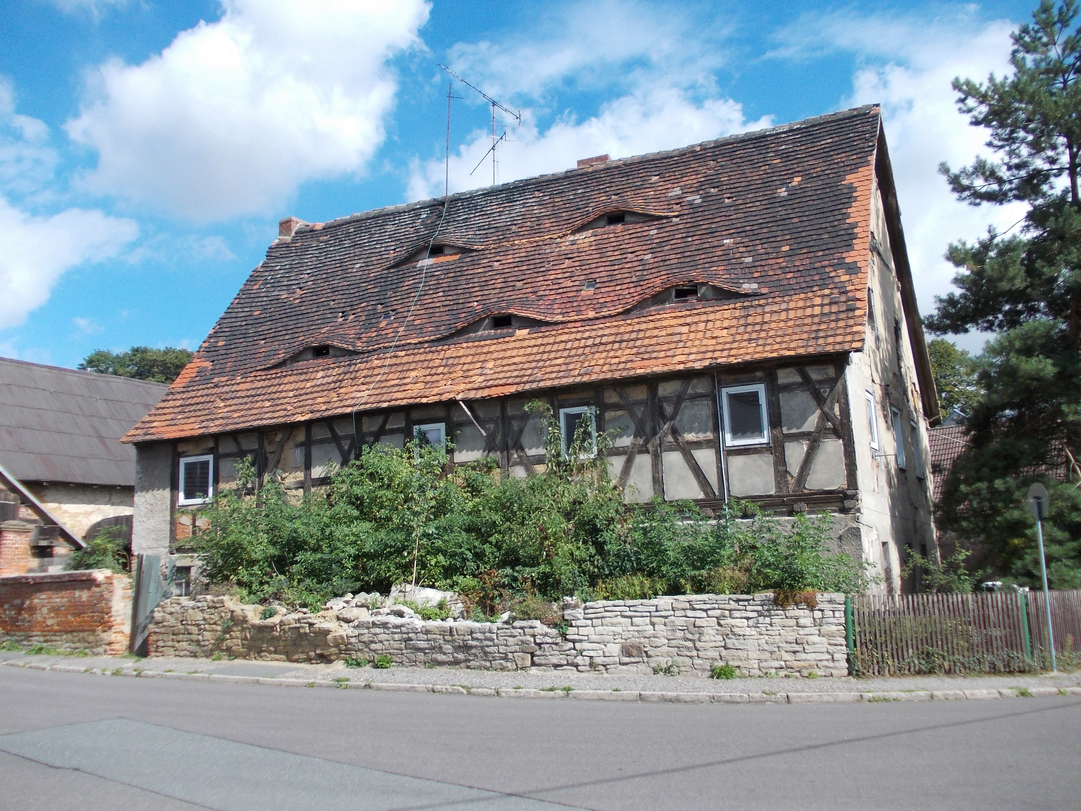 Half-timbered house at Meineweher Hauptstrasse in Meineweh (district of Burgenlandkreis, Saxony-Anhalt)